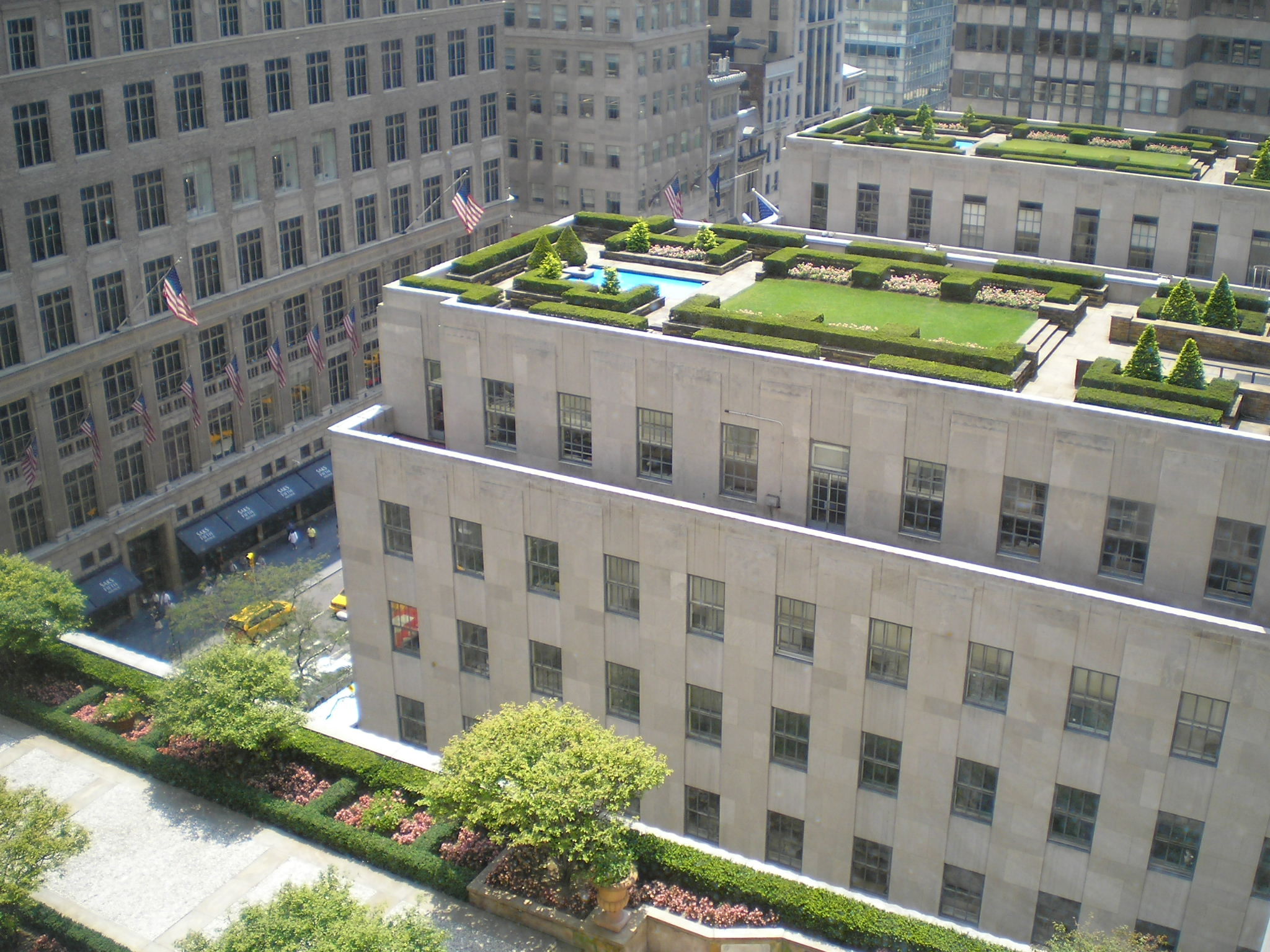 Gardens on the roofs of Rockefeller Center's buildings. These are located directly across from Sak's Fifth Avenue and St. Patrick's Cathedral. Weddings and other occasions may be held on them.